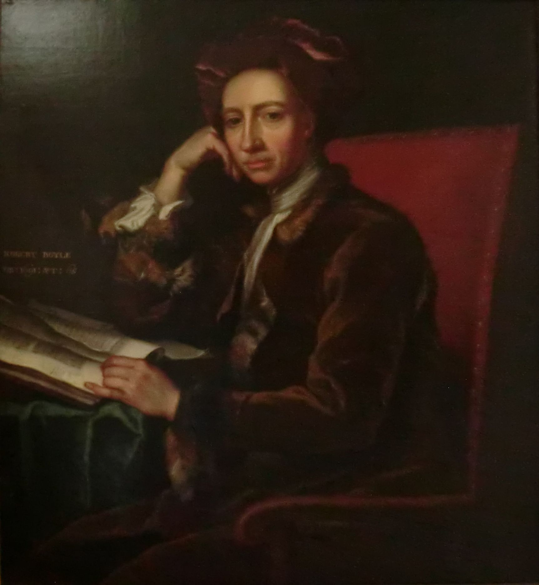 Portrait of Robert Boyle attributed to Jonathan Richardson (died 1745)